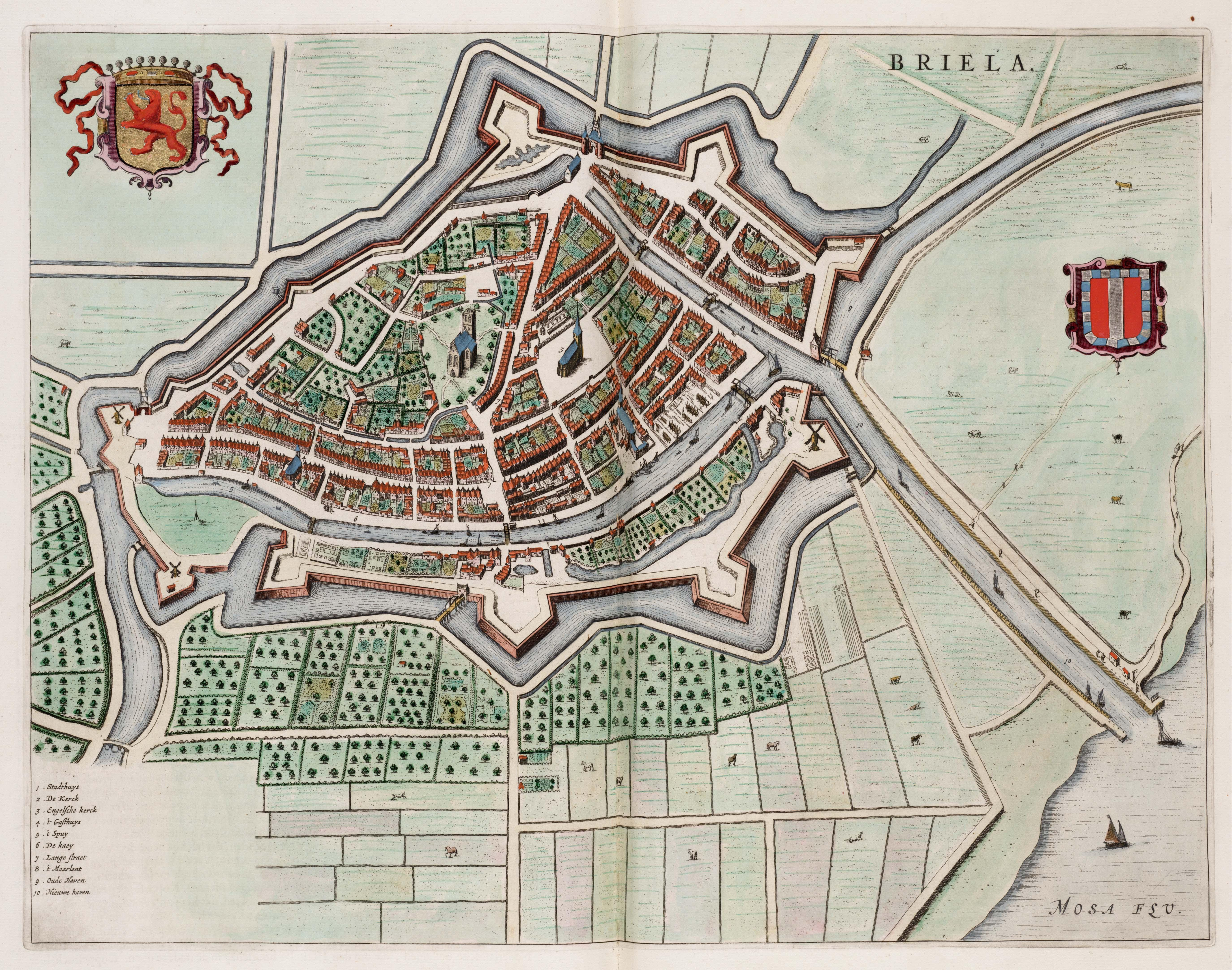 Brill (Brielle/Den Briel)